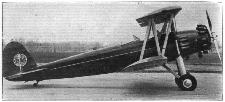 FLIGHT MAGAZINE, AUGUST 29, 1930, P.966, ROYAL AERO CLUB OF THE UNITED KINGDOM Picture originally from USAAS, Army Air Service (see attribution from p. 728)